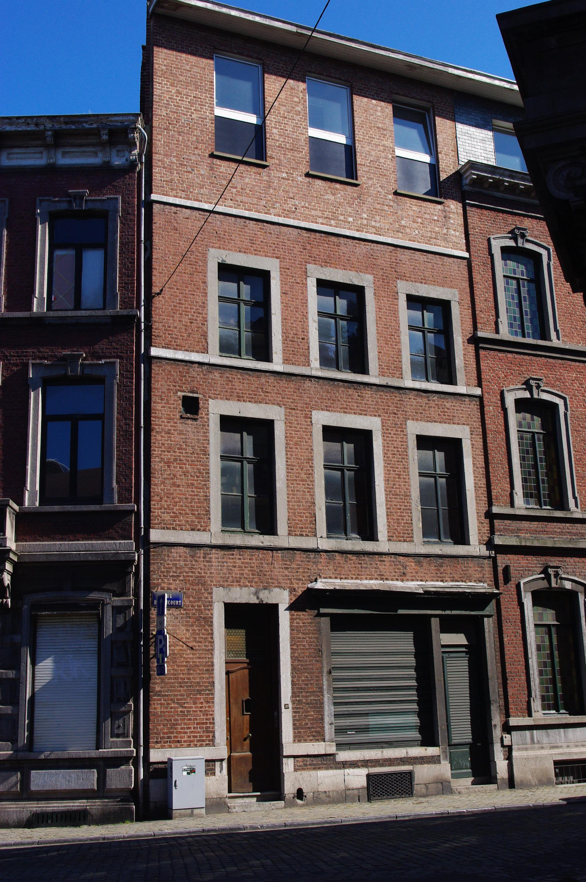 Joseph Delboeuf's house (1879) in Liege, rue Hemricourt 21